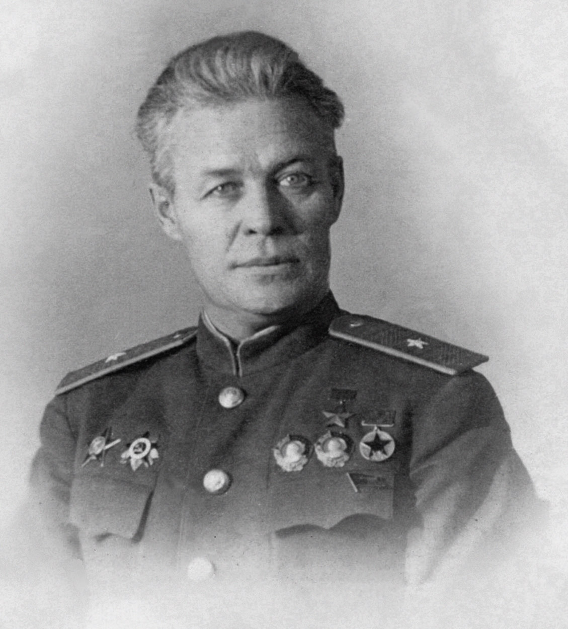 Soviet Air Force Major General Vasily Molokov